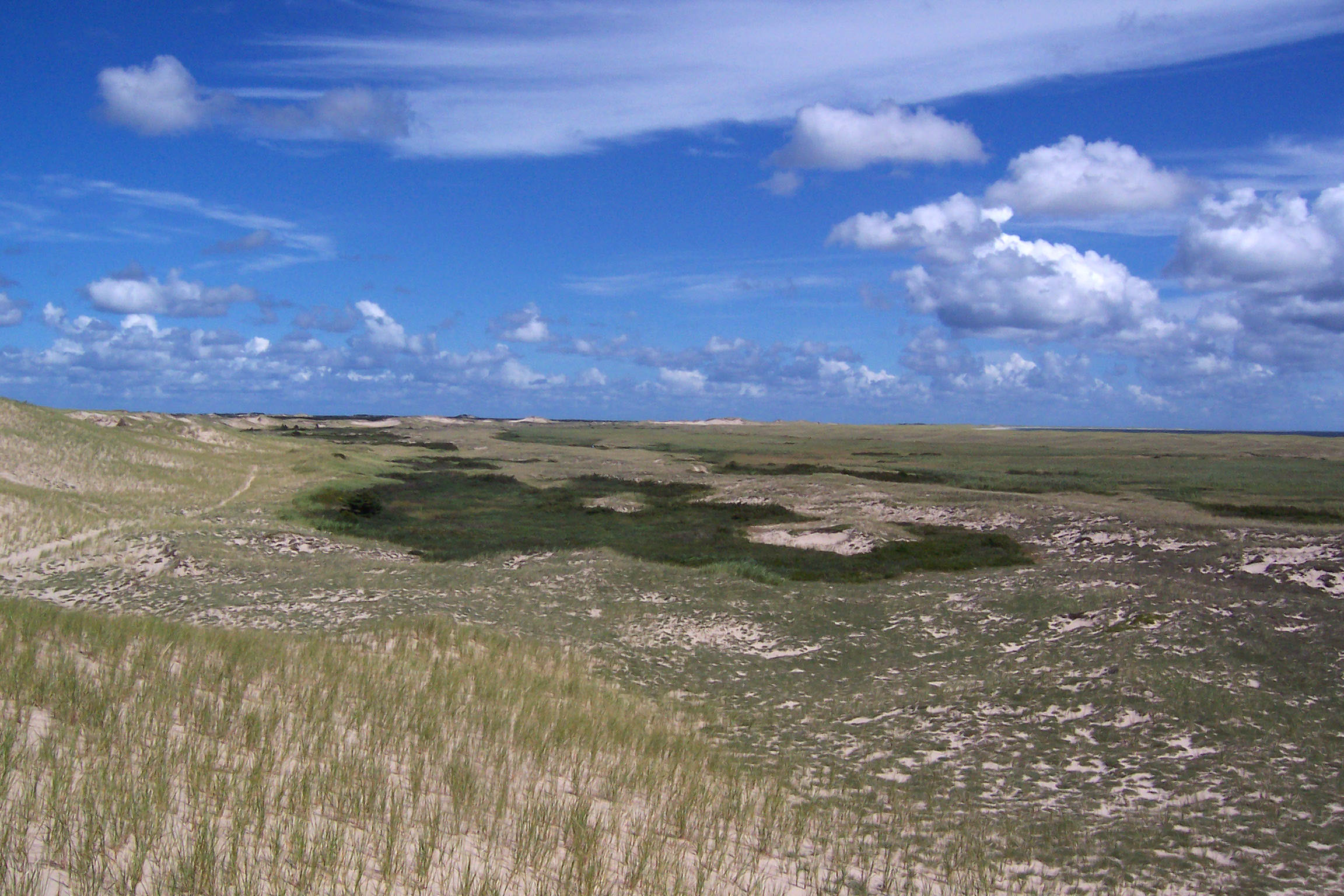 Landscape at Pointe-de-l'Est, Magdalen Islands, Québec, Canada